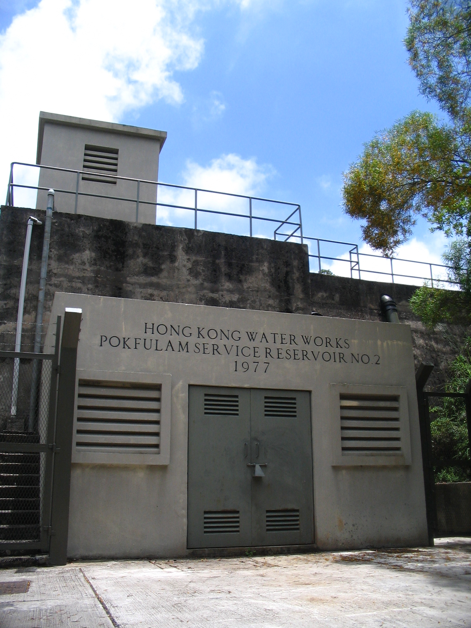 Photo of Pok Fu Lam No. 2 Service Reservoir